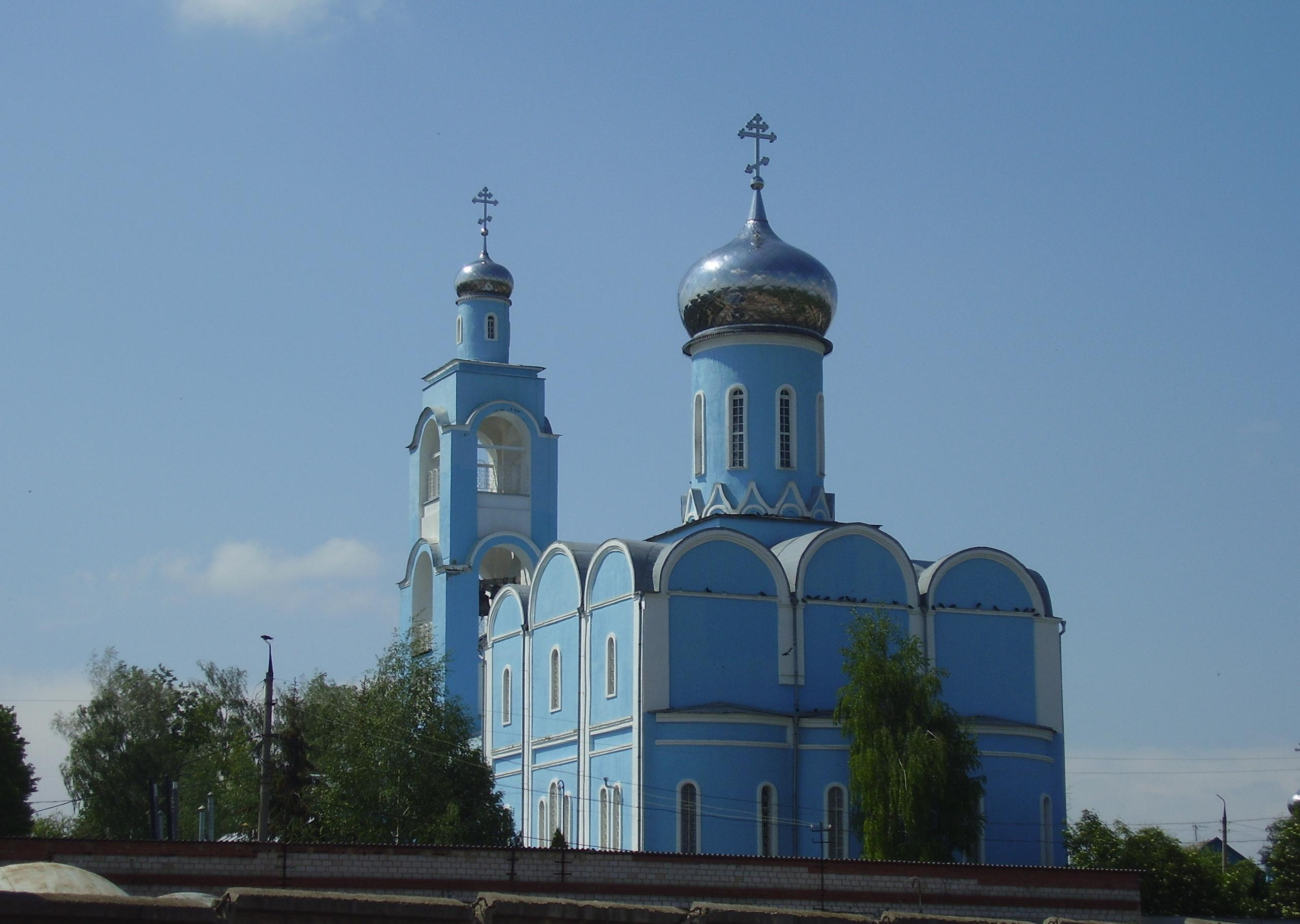 Church of the Theotokos «Seeker of the Perishing».